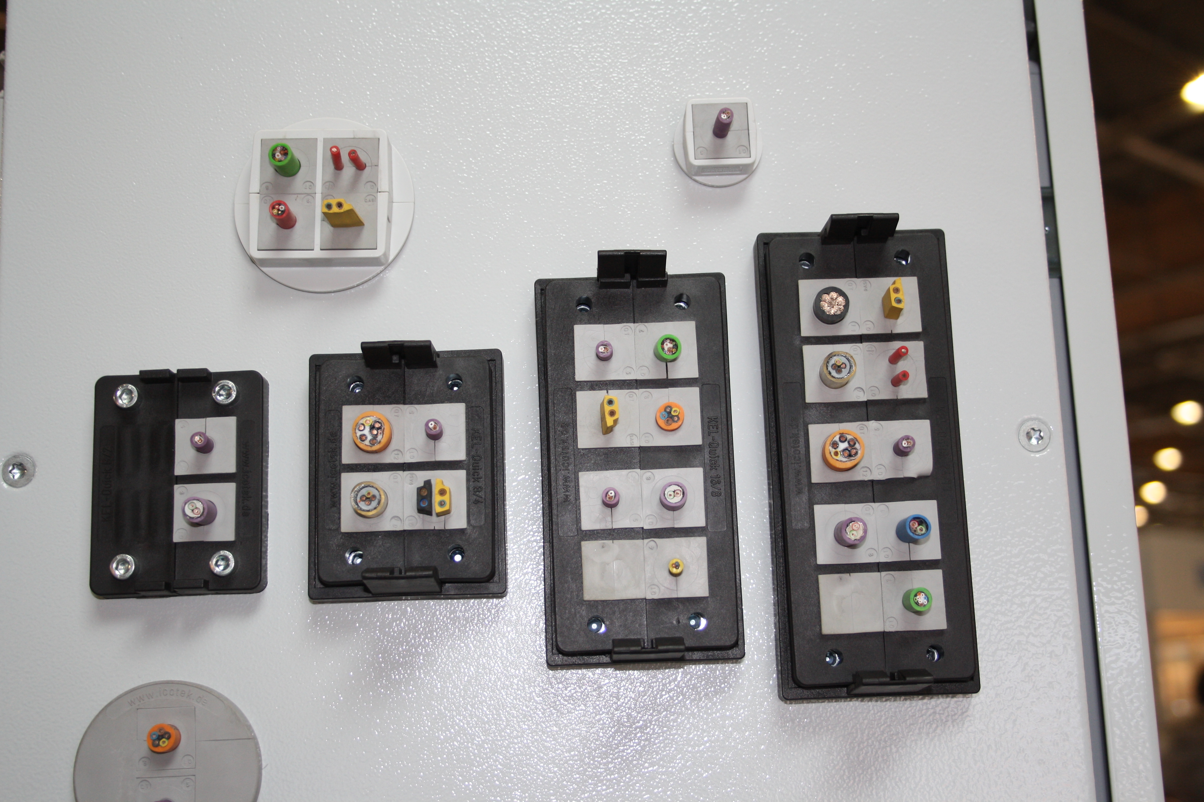 Cable entry systems for assembled cables - example